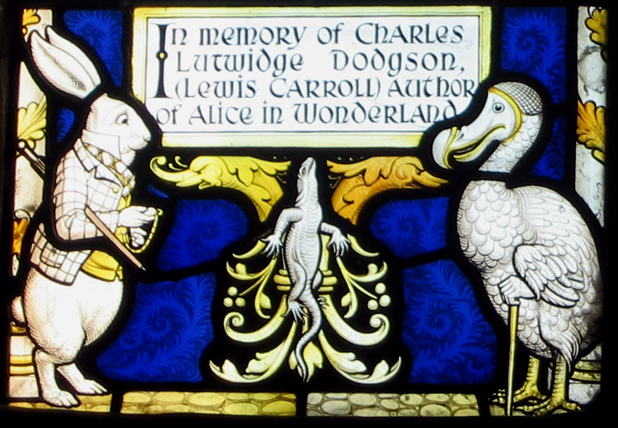 Photograph taken by me 7 April 2007.